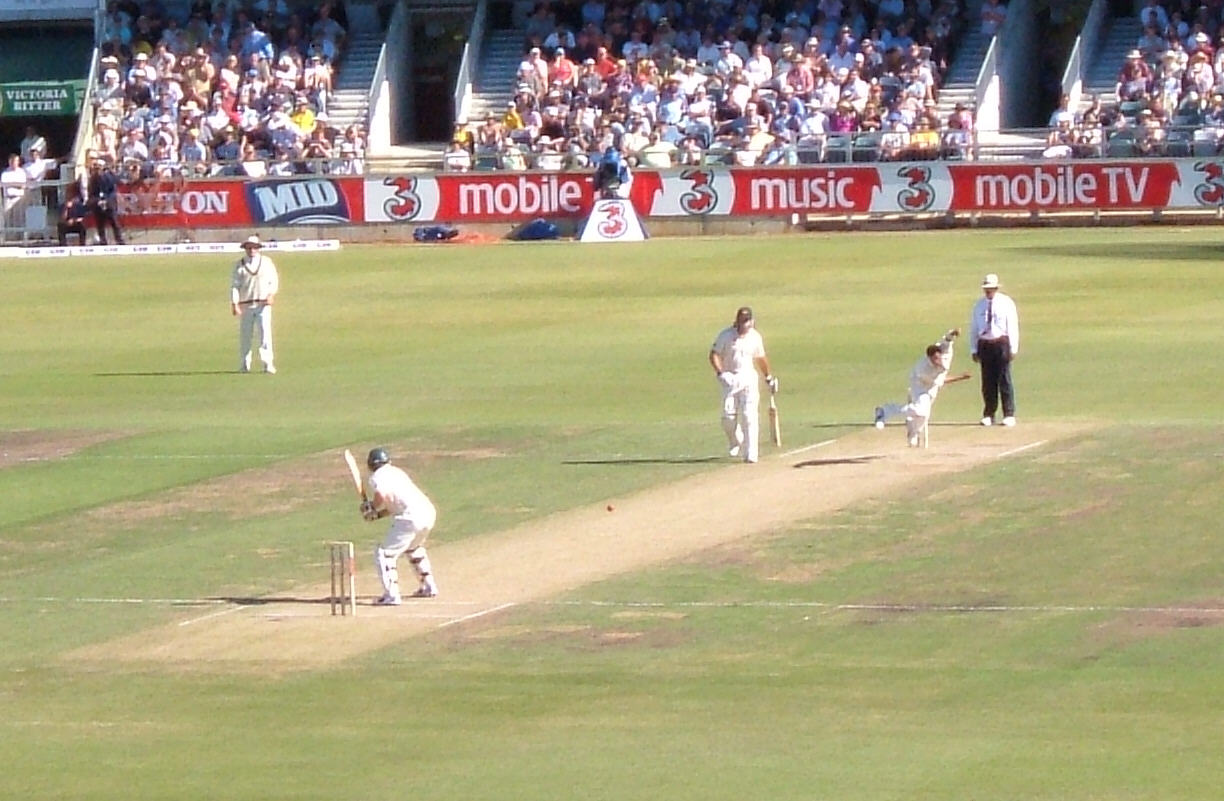 Makhaya Ntini bowls at the WACA Ground, Perth on 16/12/05, the first day of the First Test, Australia v South Africa. Ntini took five wickets for 64 runs.